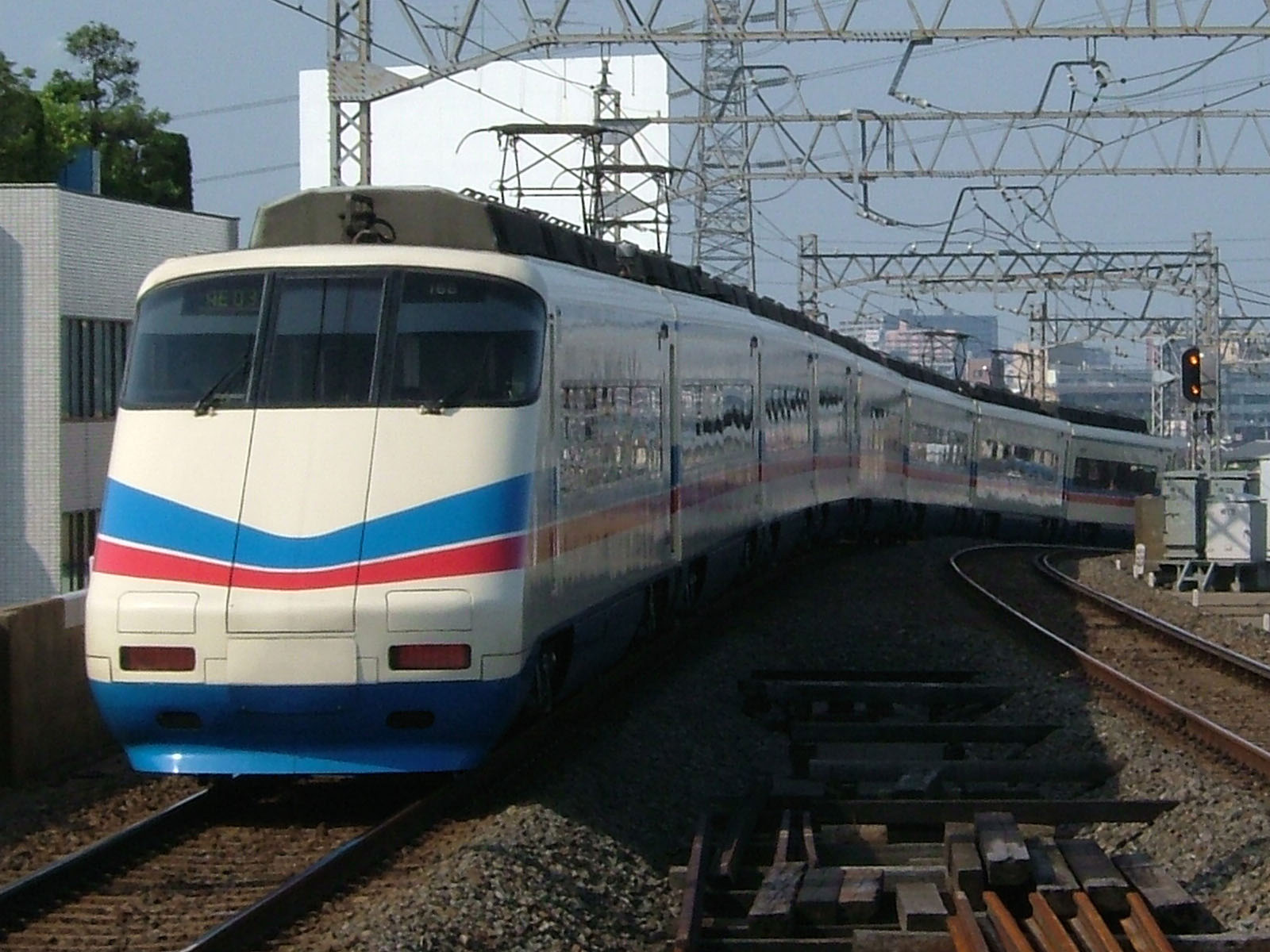 Keisei Electric Railway AE100 series EMU